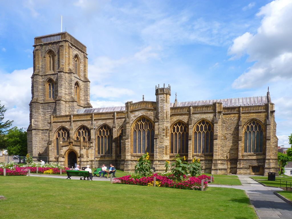 The Church of St John the Baptist was built in the late 14th century and is now a Grade I listed building. The tower, which was built around 1480, is 92 feet (28 mtrs) high.